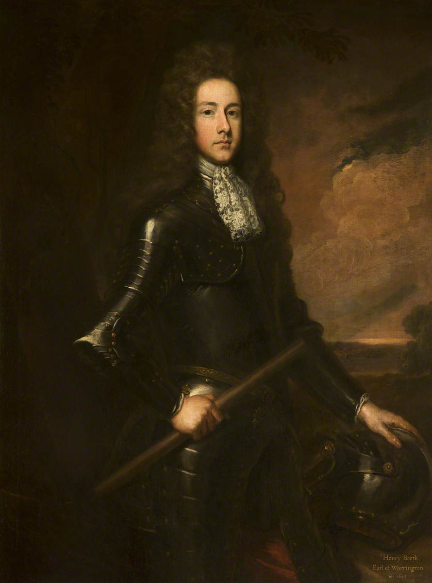 Published by John Smith, after Sir Godfrey Kneller, mezzotint, 1689. See [1].